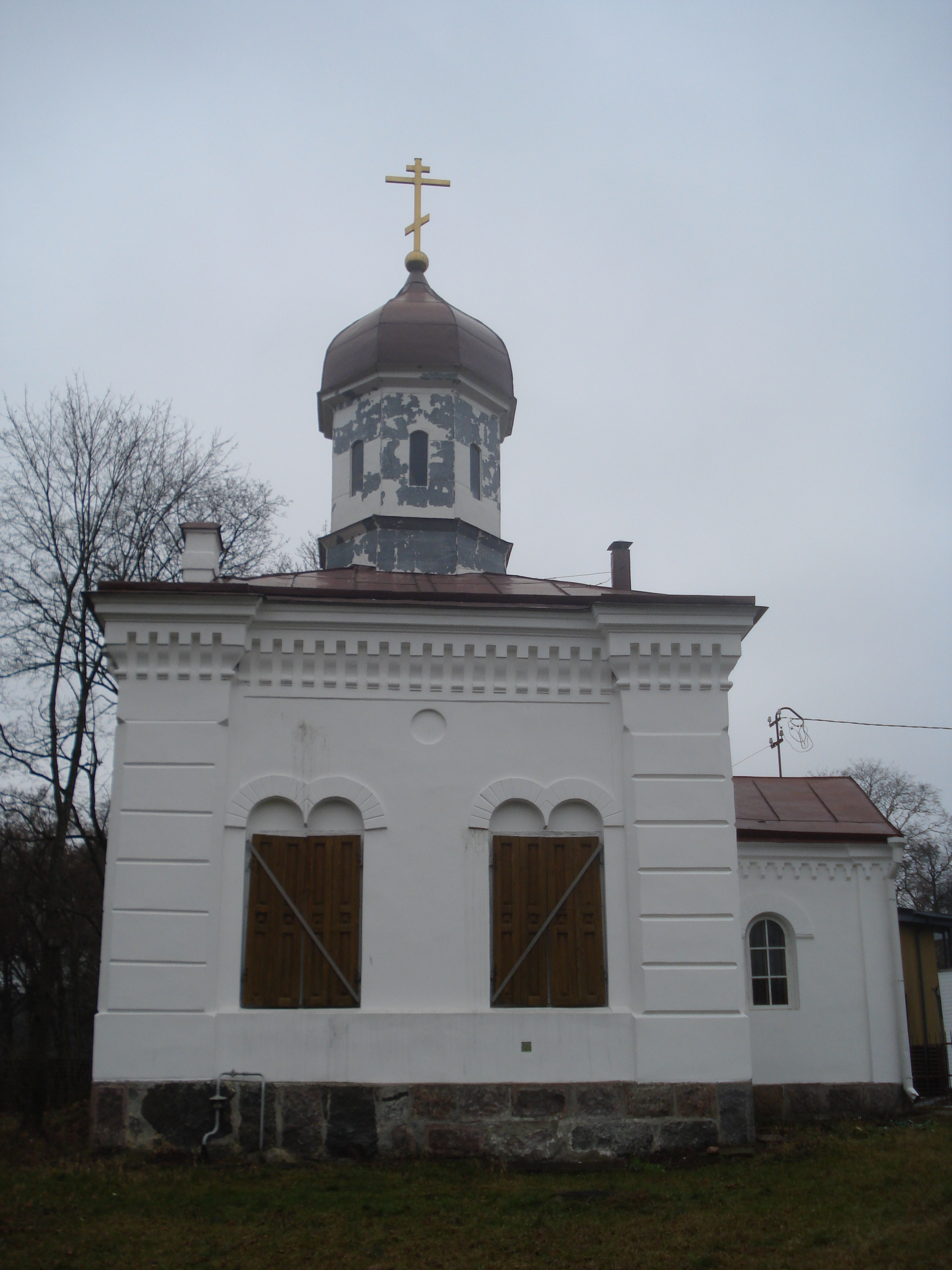 Orthodox Church of Saint Catherine of Alexandria in Vilnius (S. Moniuškos g. / Birutės g.)